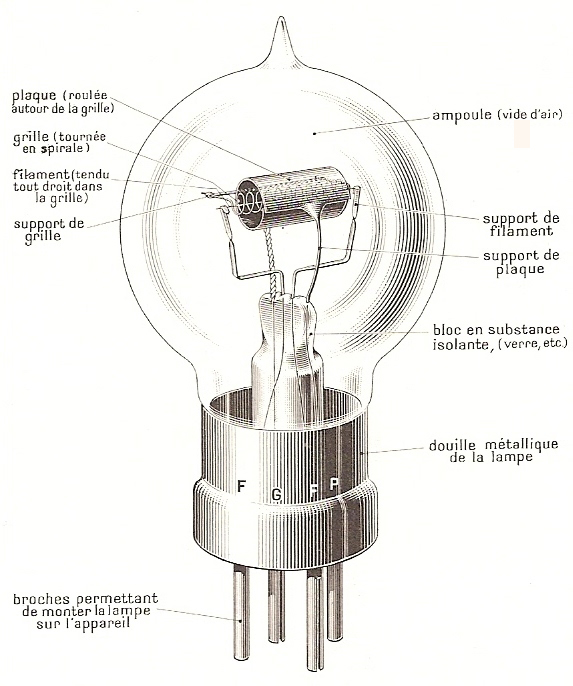 Early French military triode vacuum tube patent no. 452657, October 1915. The triode was invented by American engineer Lee De Forest in 1906, who held the rights, but in 1912 he let his French patent rights lapse due to lack of a $125 fee. The French government manufactured hundreds of thousands of these sturdy tubes, called the Loupiote, during World War 1. The tube consists of an evacuated glass bulb containing three electrodes: a heated filament, a fine horizontal tungsten wire, surrounded by a concentric helix of wire called the grid, surrounded by a concentric metal cylinder called the plate.